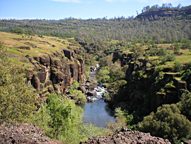 Cliffs and Big Chico Creek, Bidwell Park, California, USAUpper Bidwell Park, Big Chico Creek cliffs